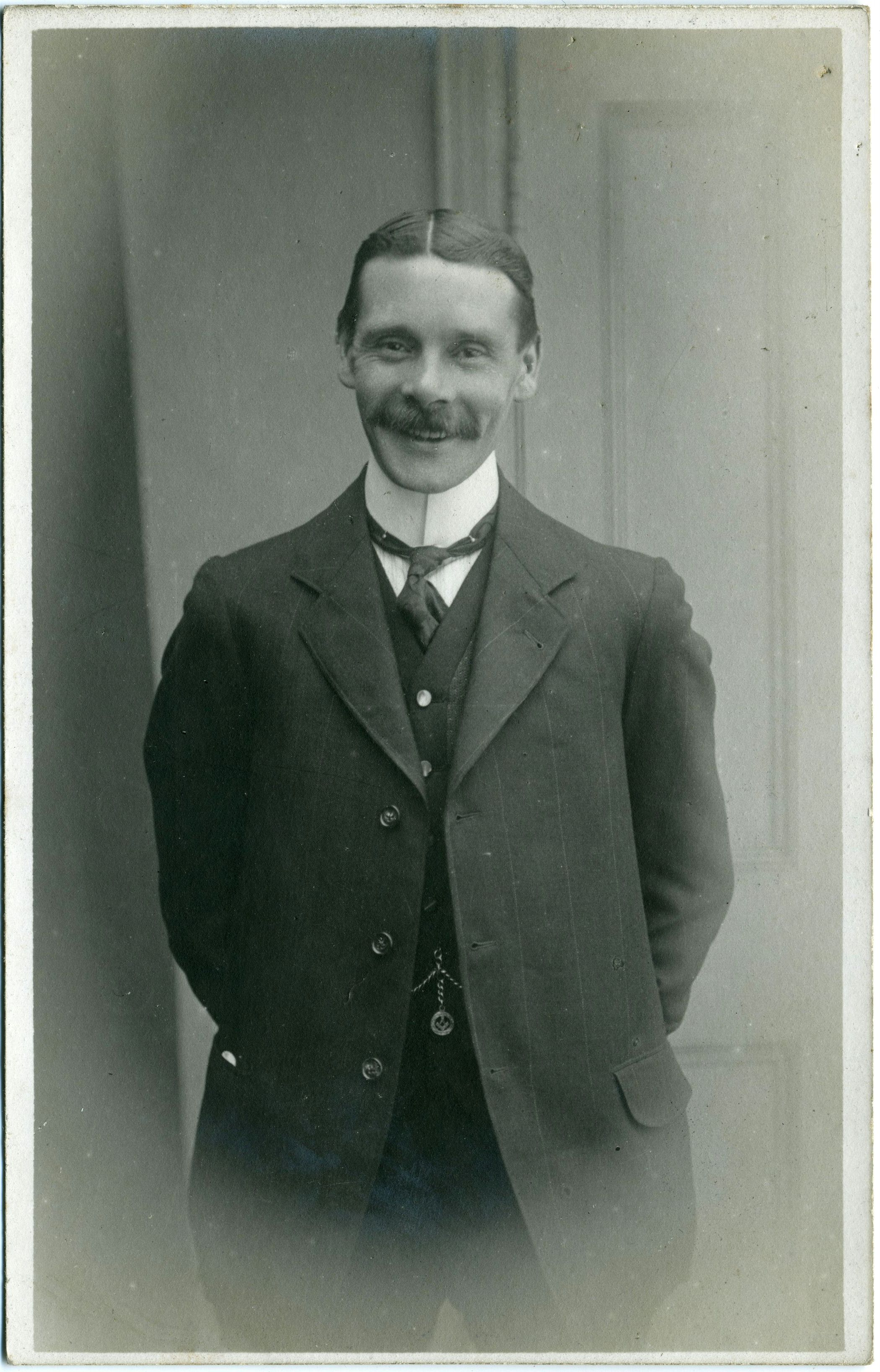 Postcard photo of an unknown young man at Herne Bay, Kent, England, dated 1903-1914. The photographer was Fred C. Palmer of Tower Studio, Herne Bay, Kent, who is believed to have died 1936-1939. Points of interest The man is wearing a fob with Masonic insignia on his watch chain. His hair is plastered down with macassar oil. His waistcoat (vest in U.S.) is edged with woven fabric, but the main body of the waistcoat appears to be hand-knitted. The informal pose and position in front of a door-frame was unusual at that time; he may be a friend or relative of Fred C. Palmer. Border The remaining border of this image is important for researchers of this photographer. Some photographers trimmed their images more than others, and Palmer has a reputation for producing smaller postcards than other early 20th century UK photographers. He took his own photos, developed them in-house onto postcard-backed photographic paper and trimmed them himself. It is worth adding that during hand-developing the border is actively masked with equipment which both crops the picture and causes the white frame or border to appear on the paper. This frame is part of the design and is one of the reasons why the quality of Palmer's work is so interesting, and why there is an article and category for him on English Wiki. Researchers need to see exactly where the edge of the postcard is. in the case of this picture, there is no white frame on the paper, but it is important to see exactly where the edge of the postcard is, to see how Palmer has cropped it. The cropping is part of the composition. Thank you for taking the time to read this.